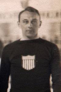 American ice hockey player Leon Tuck representing the US national ice hockey team at the 1920 Summer Olympics in Antwerp, Belgium. The picture is a crop out of a larger team photo taken inside the ice rink Palais de Glace d'Anvers. The ice hockey tournament at the 1920 Summer Olympics took place between April 23 and April 29. The american team won silver medals at the games.